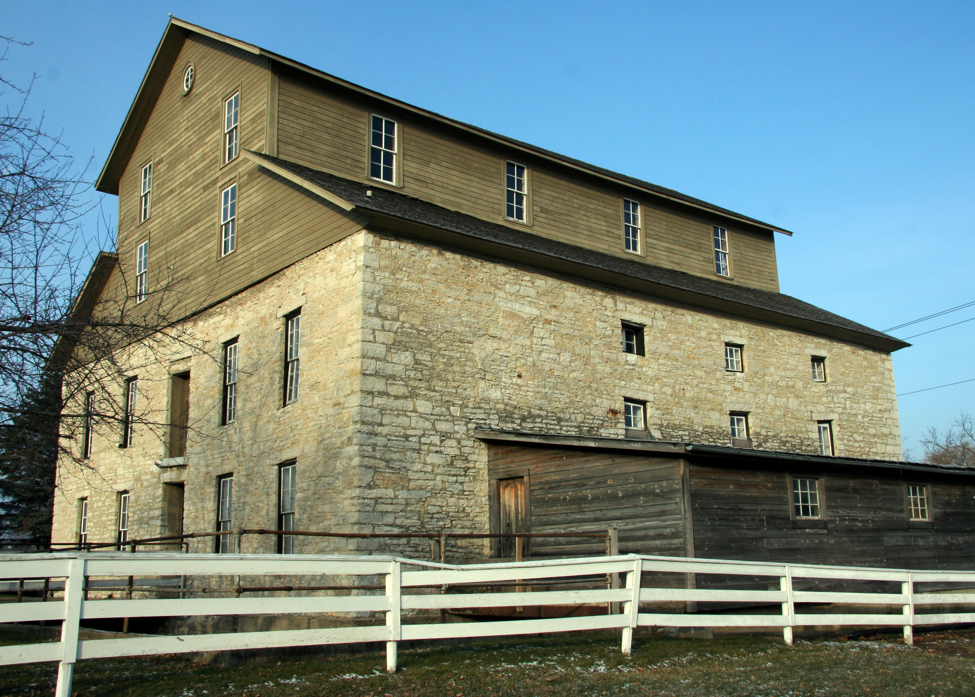 200 North Mill Street, Decorah, Iowa, in the open air division of the Vesterheim Norwegian-American Museum, listed on the National Register of Historic Places as the Painter-Bernatz Mill